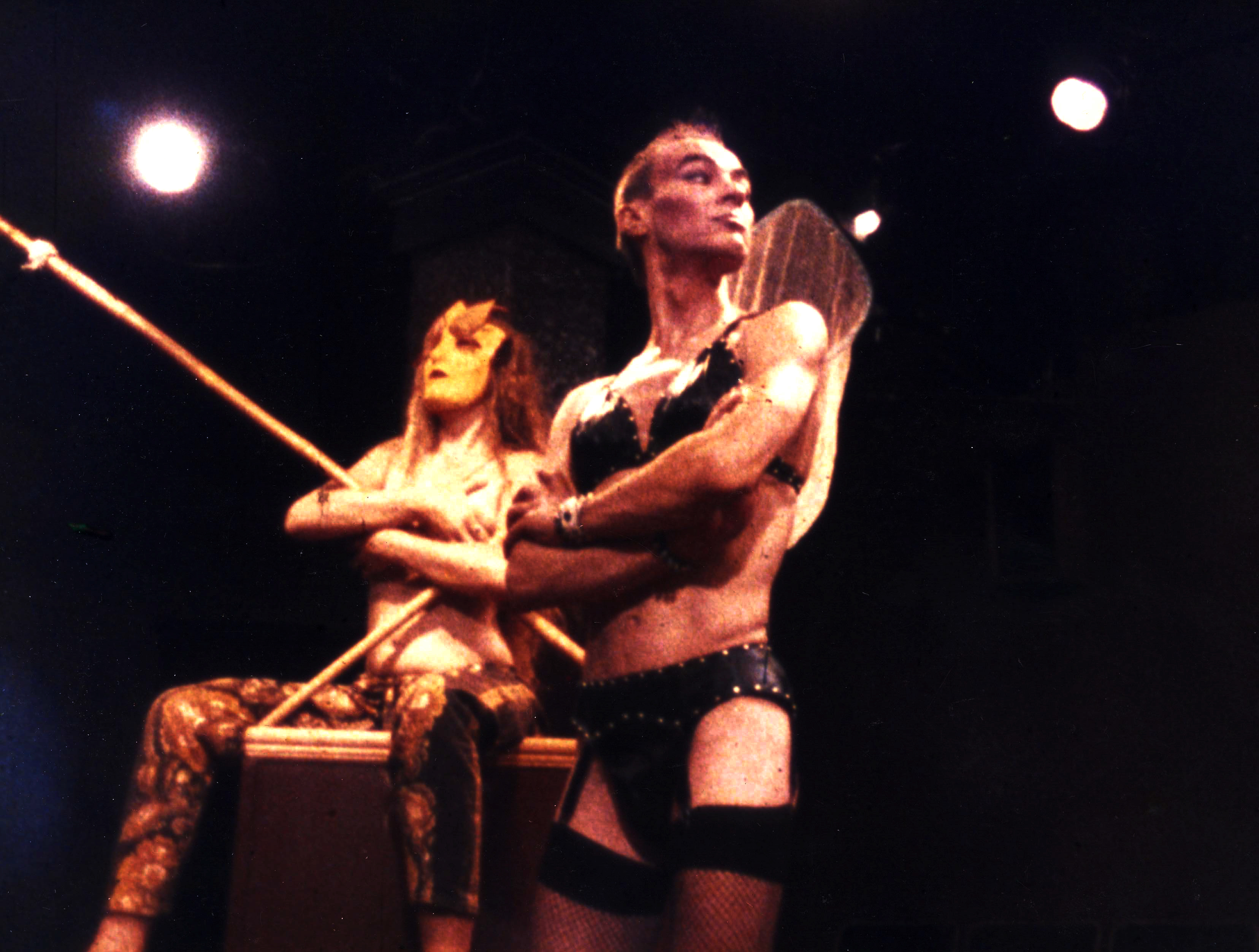 Willie Brookes and Nina Rutledge in a scene from the Film "Stage Fright," written by Stanley Keyes & Brad Mays and directed by Brad Mays, released in 1989.